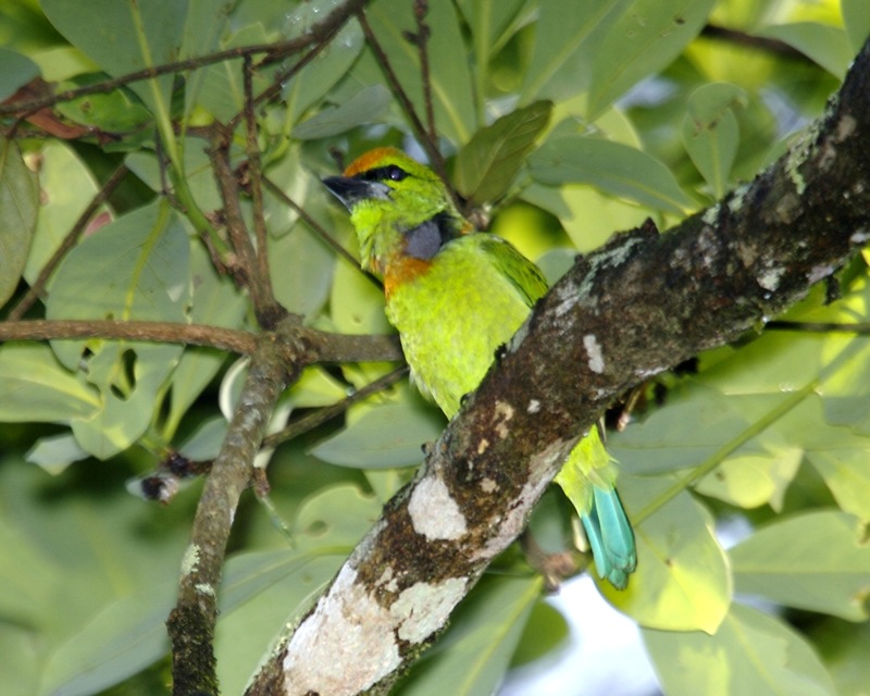 Flame-fronted Barbet Megalaima armillaris armillaris Location: Cibodas, Java, Indonesia 26th. August 2006 Alt. Name: Orange fronted barbet, Blue-crowned Barbet Indonesian: Cangkarang, Takur tohtor, Tohtor Throat more prominint during calling as compared to resting: Distribution